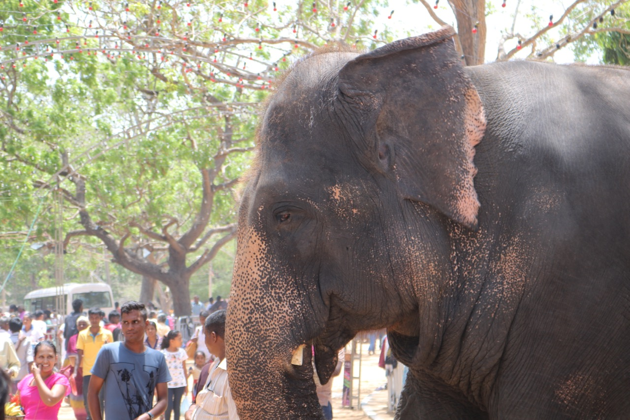 Sri Lankan elephant at Kataragama.